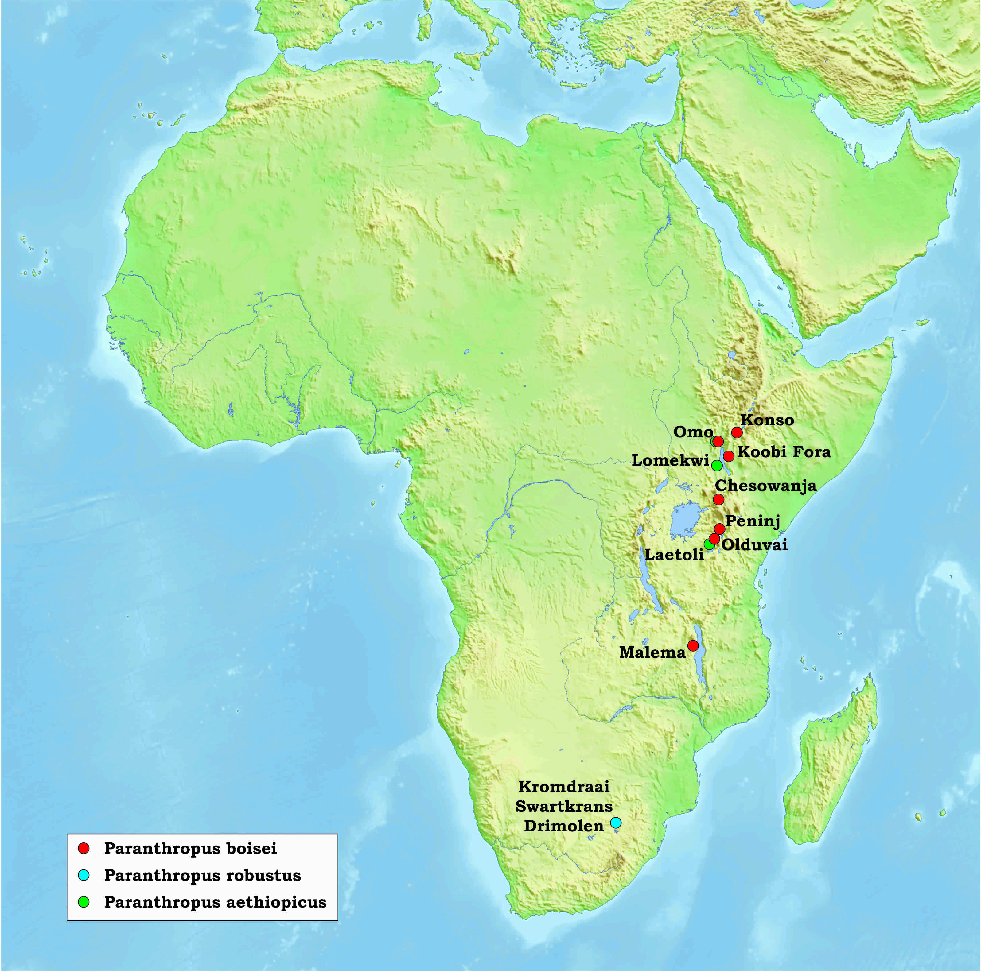 Paranthropus paleoanthropological sites in South Africa, Malawi, Tanzania, Kenya and Ethiopia